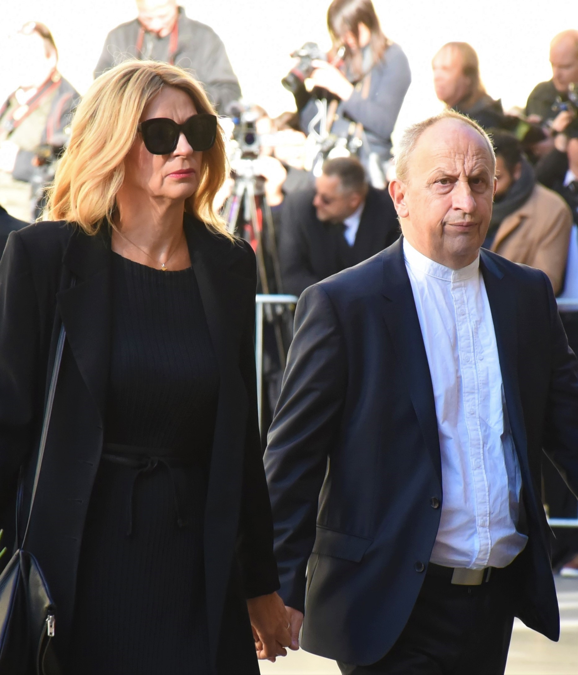 Ivana Chýlková and Jan Kraus, Czech actors